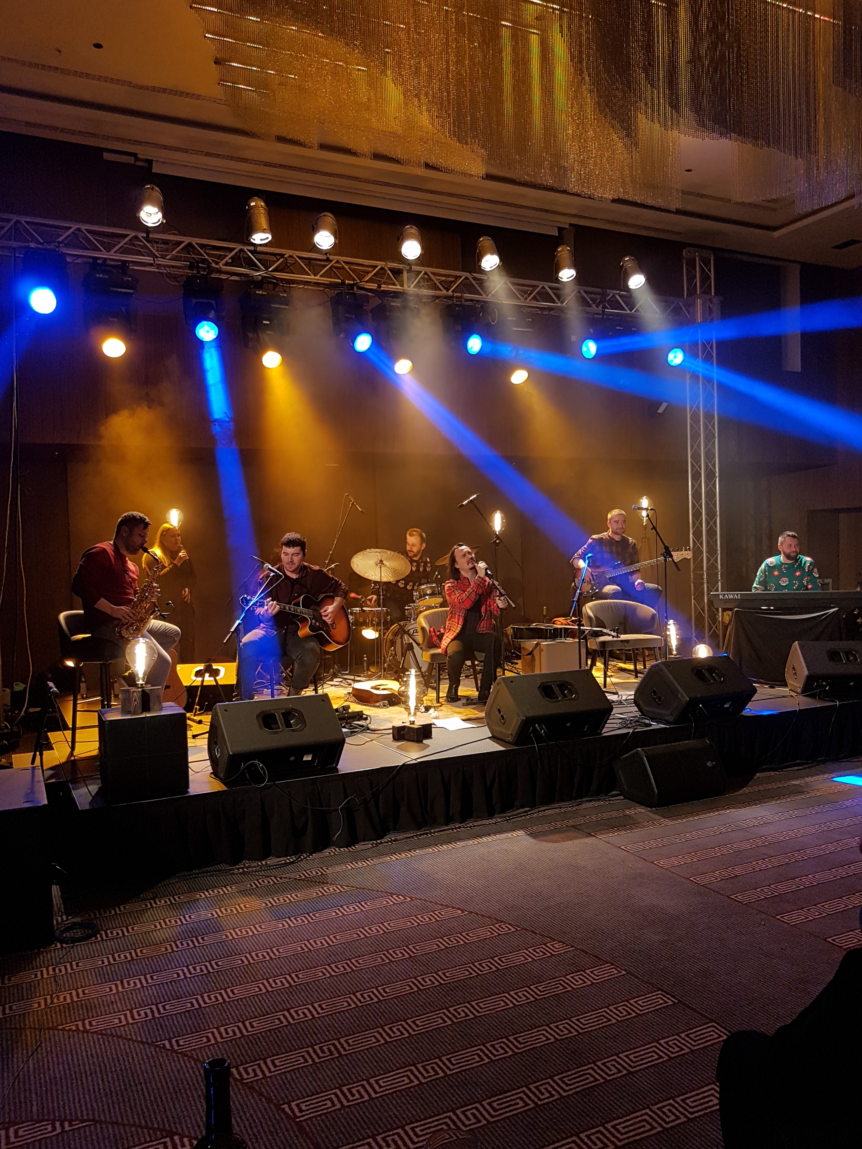 Live recording of their 5th album in Hotel Marriot in Skopje.